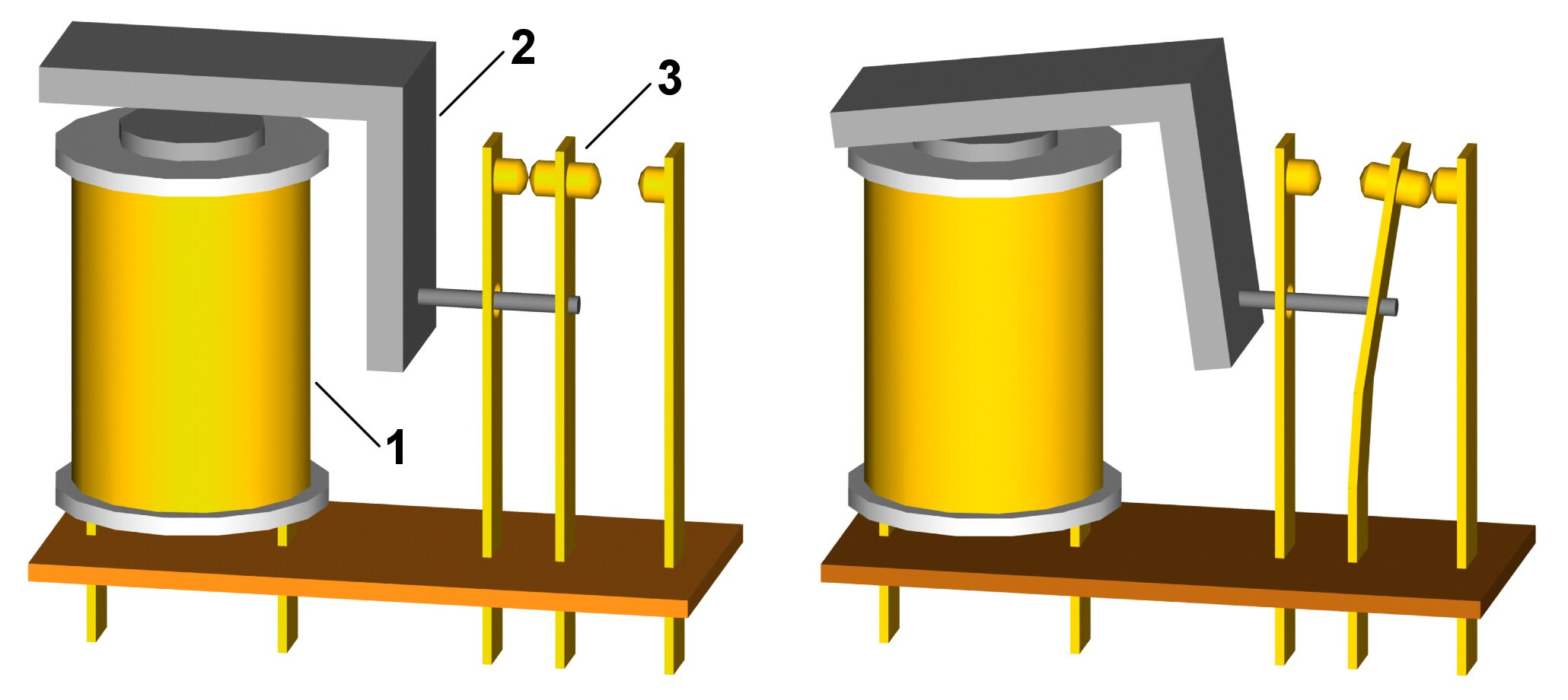 Relay principle: 1. Coil, 2. Armature, 3. Moving contact